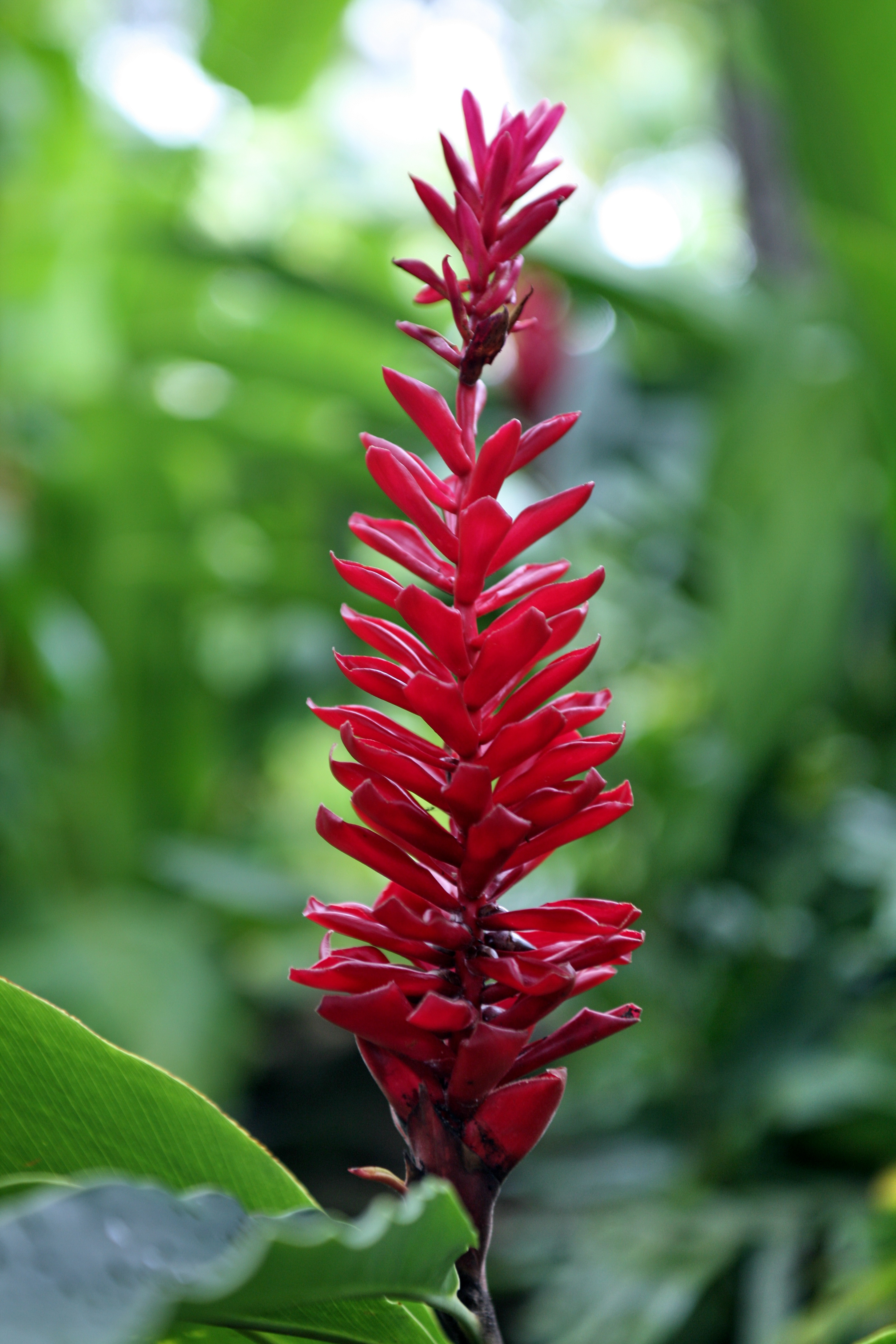 Alpinia purpurata - Red Ginger One of the showiest of all tropical flowers, the red ginger is a true tropical and thrives in hot, humid conditions. Its bloom is formed by an upright head of rich, rosy crimson bracts, an unforgettable sight.